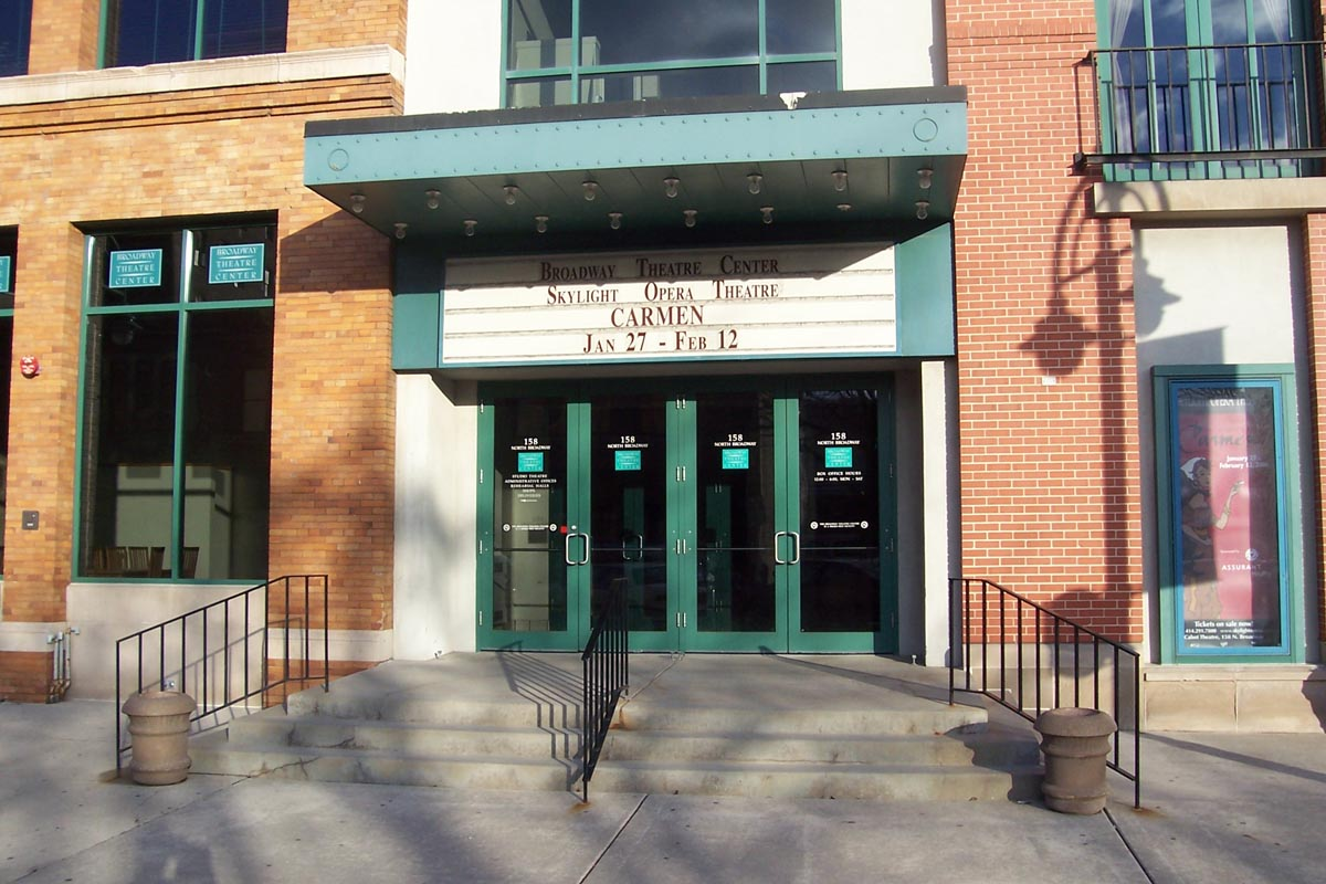 Copyright © 2006 Sulfur The Broadway Theatre Center, which houses two distinct theatres, is host to a dynamic collaboration of theatre companies located in Milwaukee, Wisconsin.